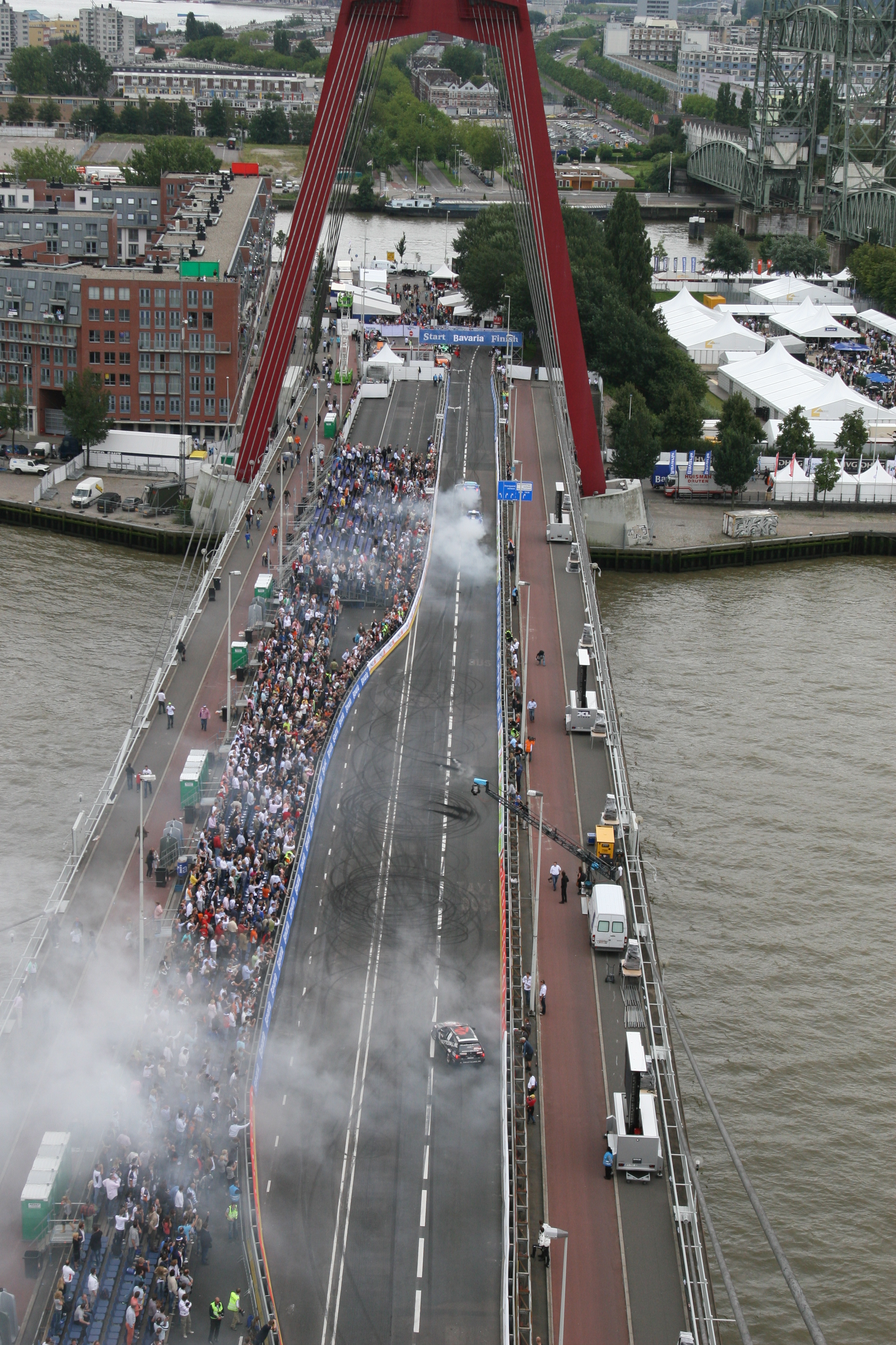 Bavaria City Racing 2007